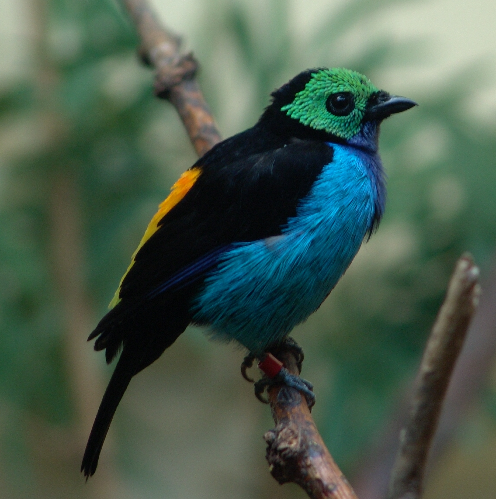 An adult Paradise Tanager at Denver Zoo, USA.